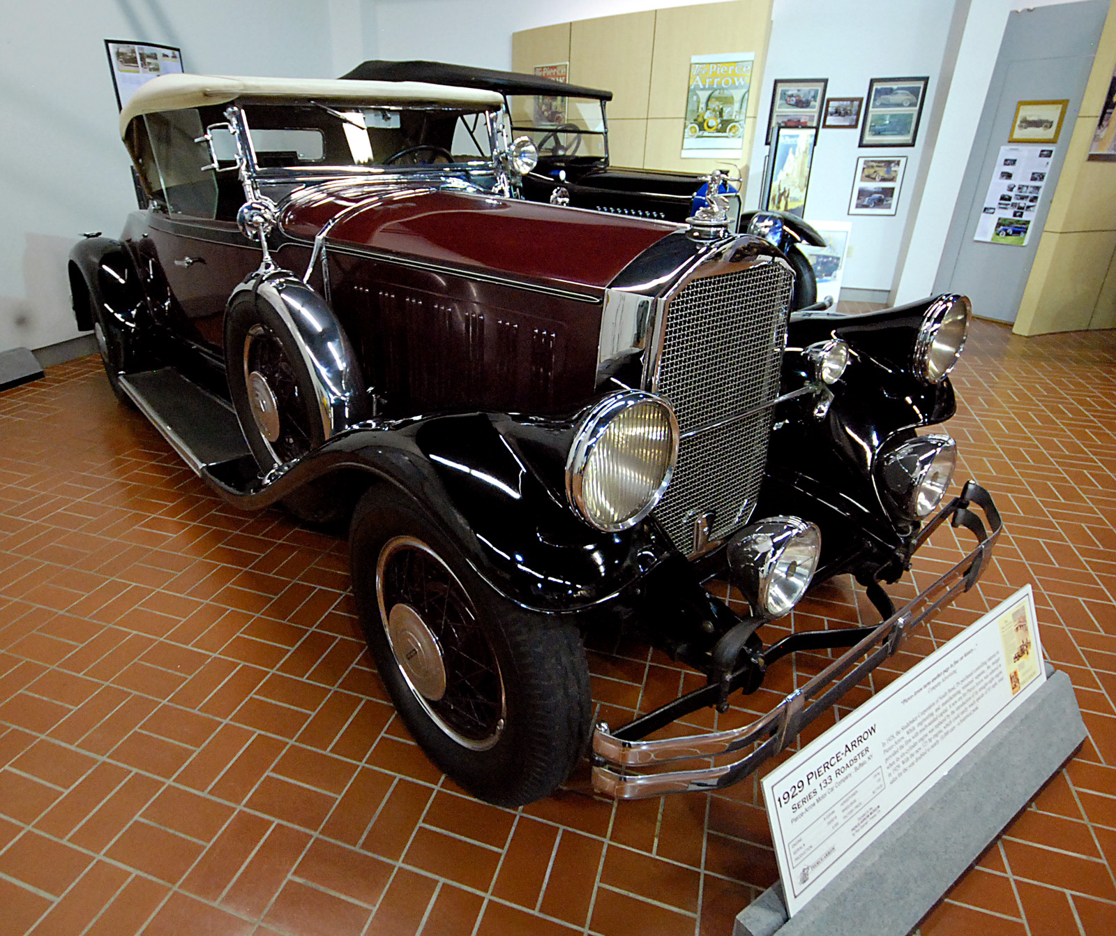 Pierce-Arrows at the Gilmore Car Museum in Hickory Corners.